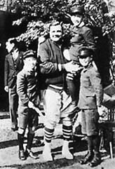 Babe Ruth plays with local baseball kids while staying at Imperial Hotel in Tokyo.